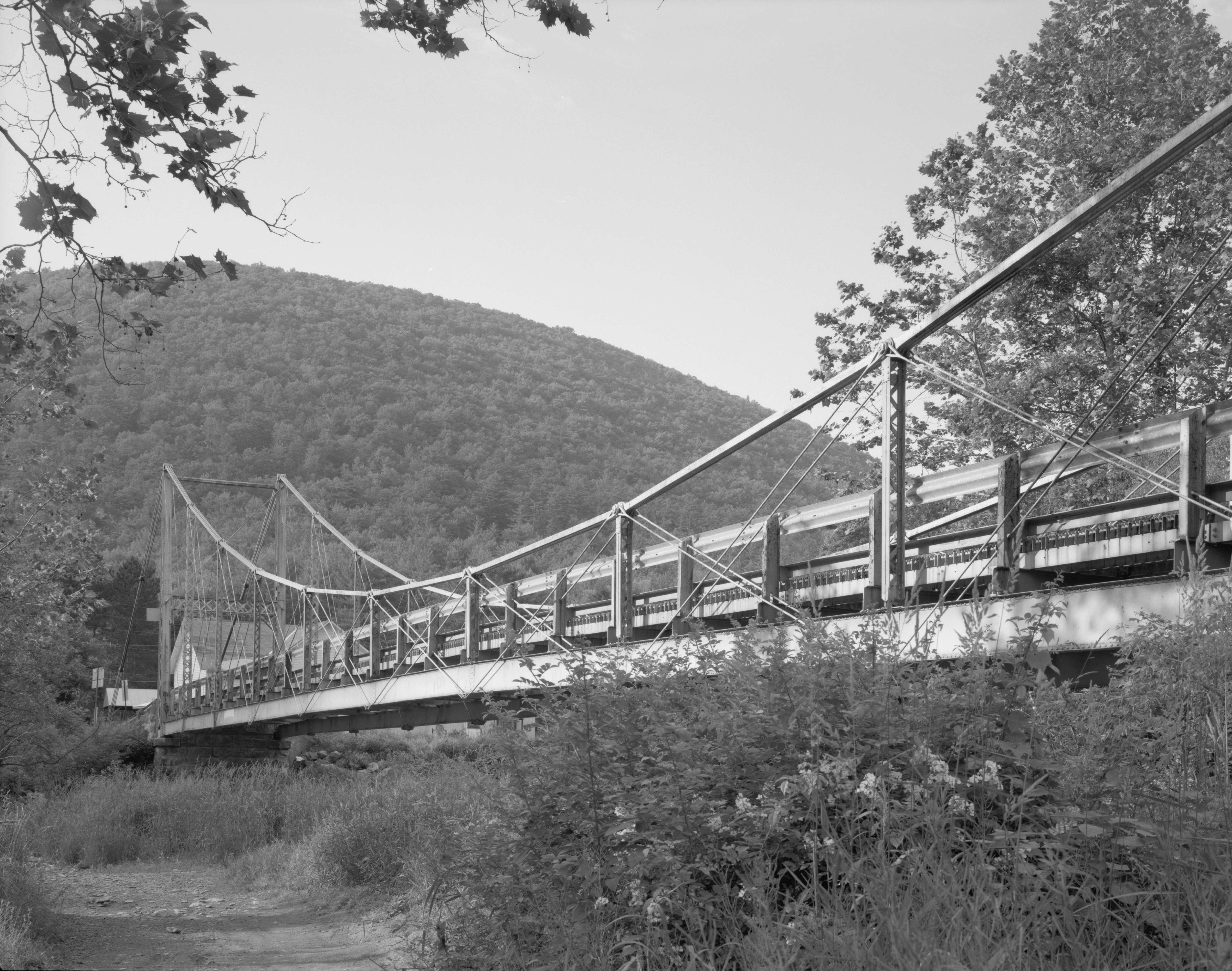 Lower Bridge at English Center, Spanning Little Pine Creek at State Route 4001, English Center, Lycoming County, PA